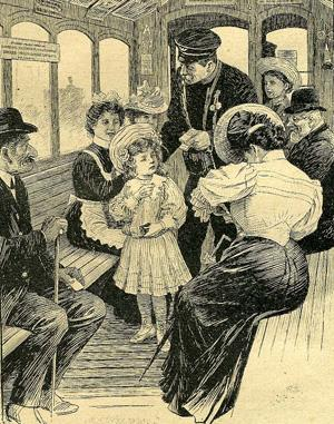 A cartoon in the magazine "Fun", 1907